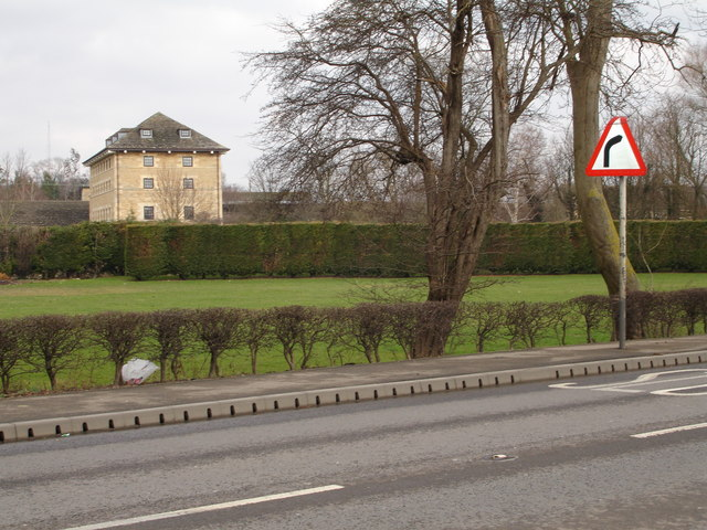 Newstead Mill, Stamford. Former mill converted to apartments